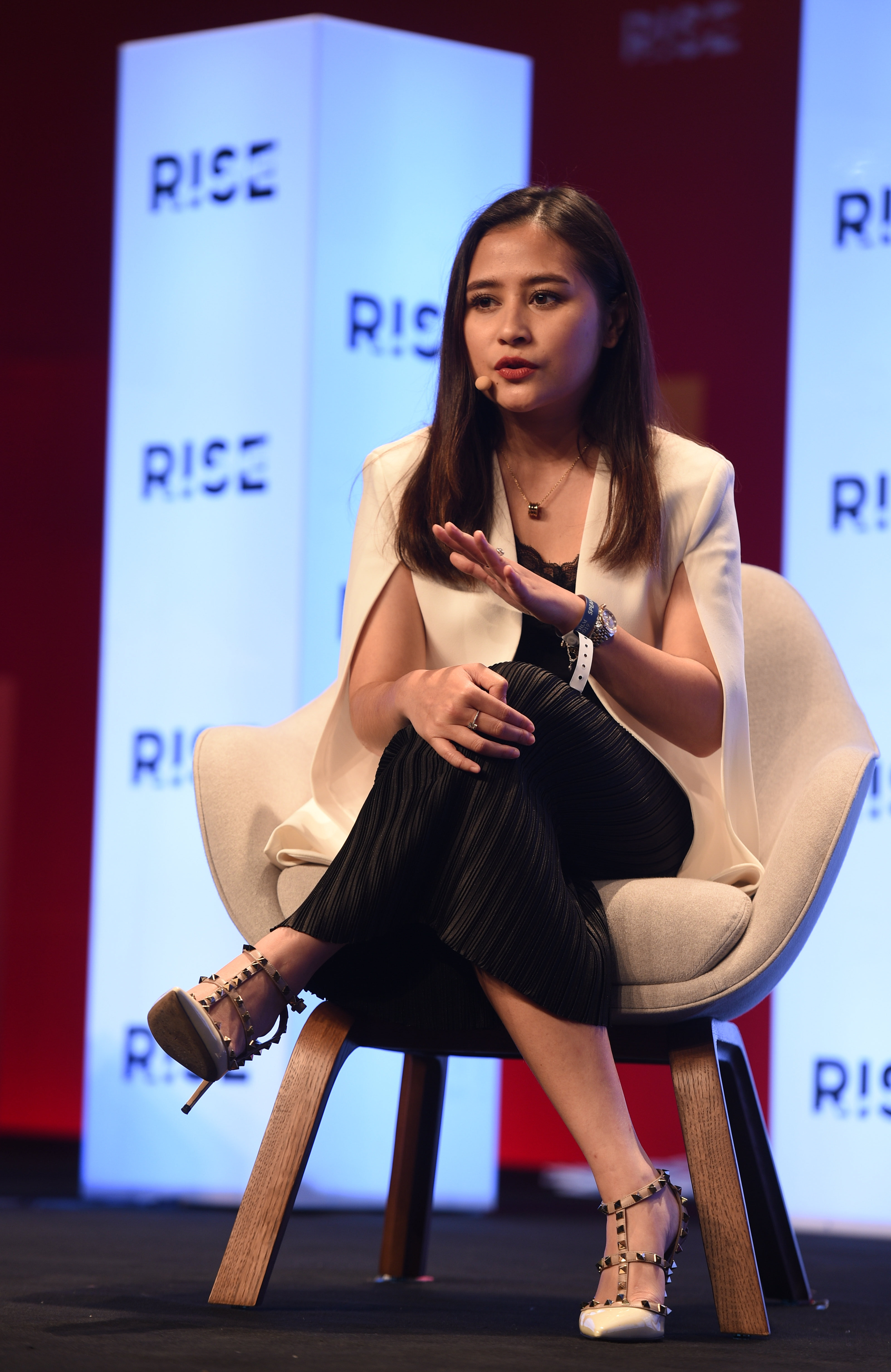 11 July 2019; Prilly Latuconsina, Actress/Singer/Author/Entrepreneur, Prilly Latuconsina, on Centre Stage during day three of RISE 2019 at the Hong Kong Convention and Exhibition Centre in Hong Kong. Photo by Cody Glenn/RISE via Sportsfile